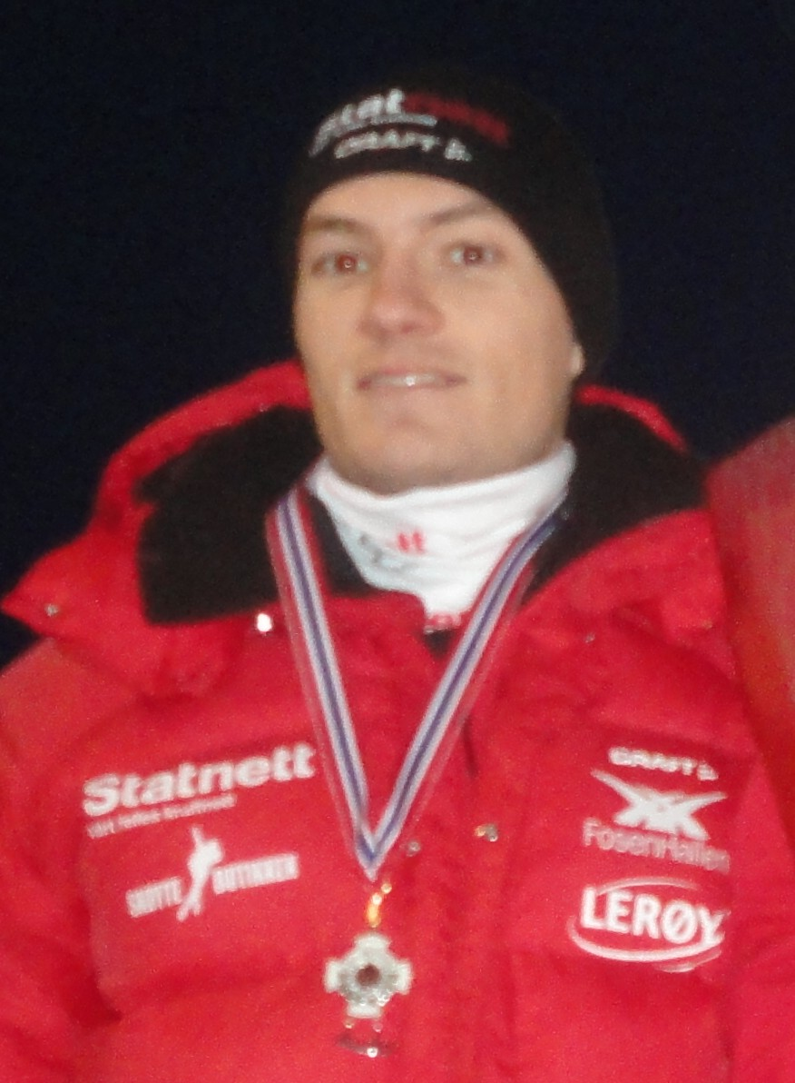 Michael Flygind Larsen silver medal at Sprint Speed ​​Skating Championships in Asker 2012.